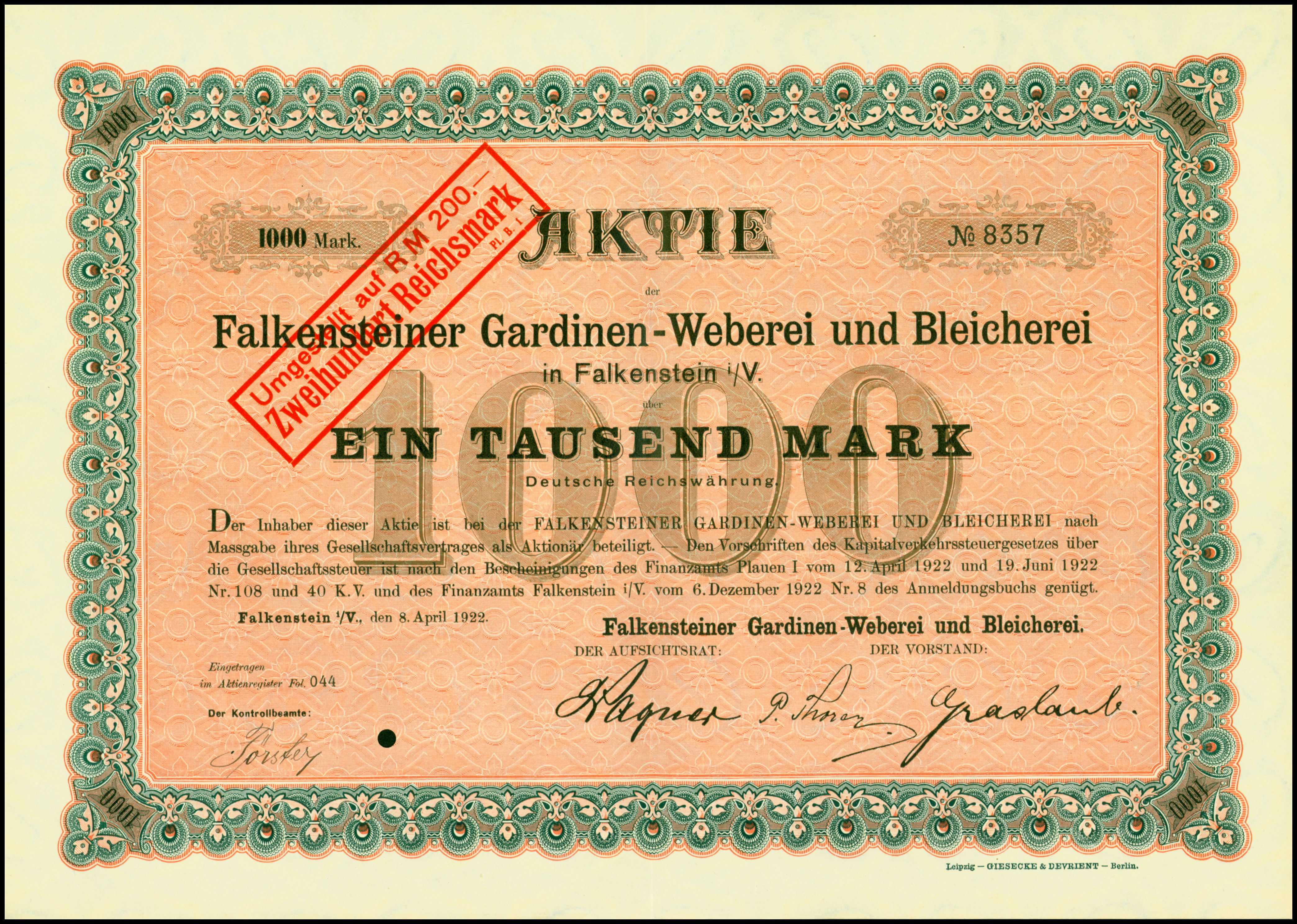 Share of the Falkensteiner Gardinen-Weberei und Bleicherei, issued 22. April 1922